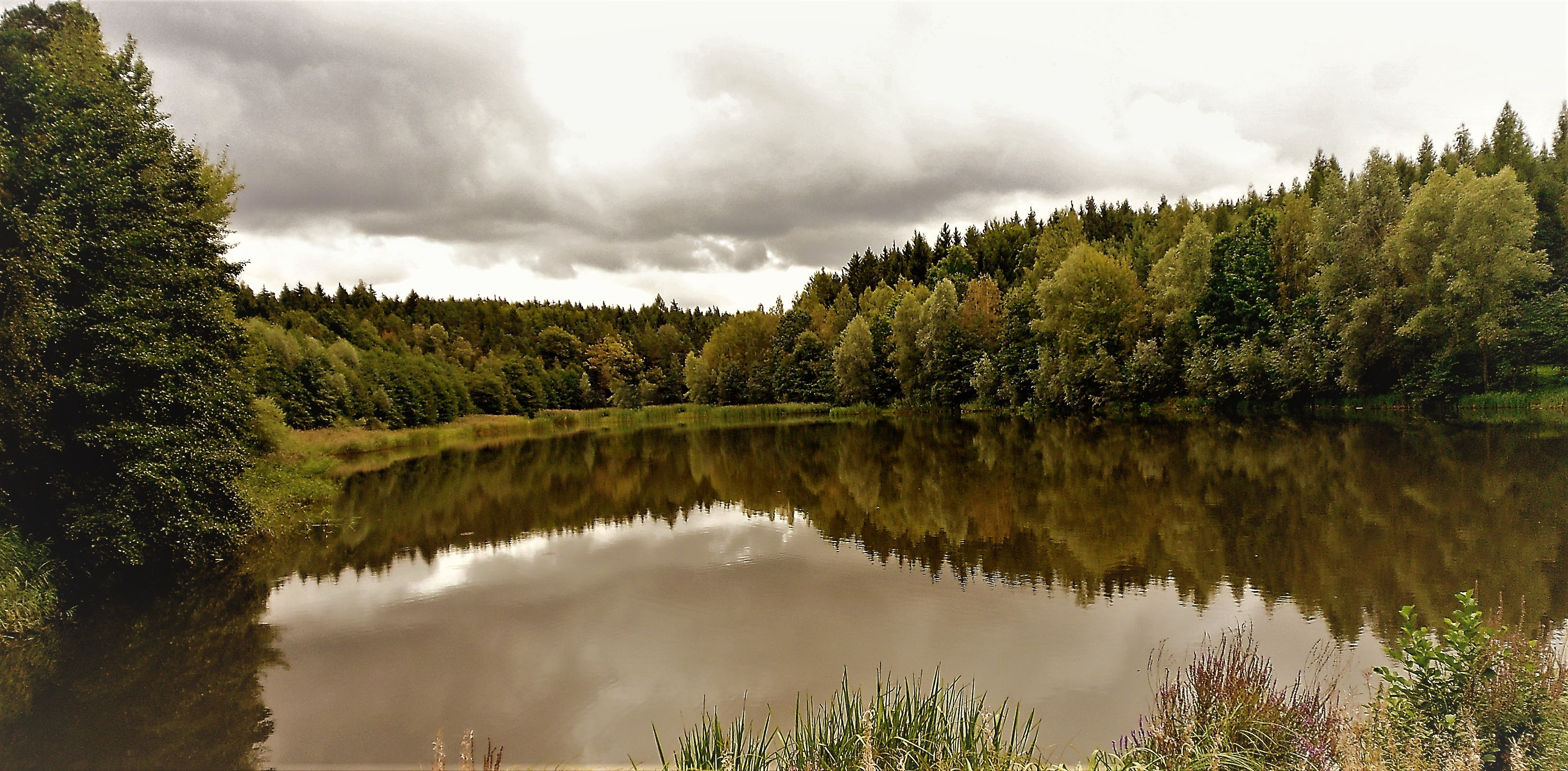 Heathmill-Lake in the Dippoldiswalder Heath (Saxonia)